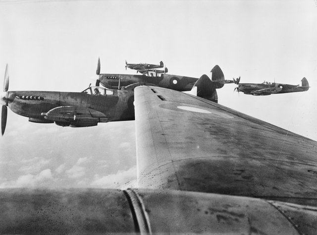 Airborne between Darwin, NT and Merauke, Dutch New Guinea. Supermarine Spitfire aircraft of No. 452 Squadron RAAF seen from the escorting Lockheed aircraft of No. 37 Squadron RAAF shortly after leaving Sattler airfield near Darwin, NT, on 16 December 1944, en route to Merauke, Dutch New Guinea, the first stop on the move of the squadron from Sattler to Morotai Island in the Halmahera Islands, Dutch East Indies.